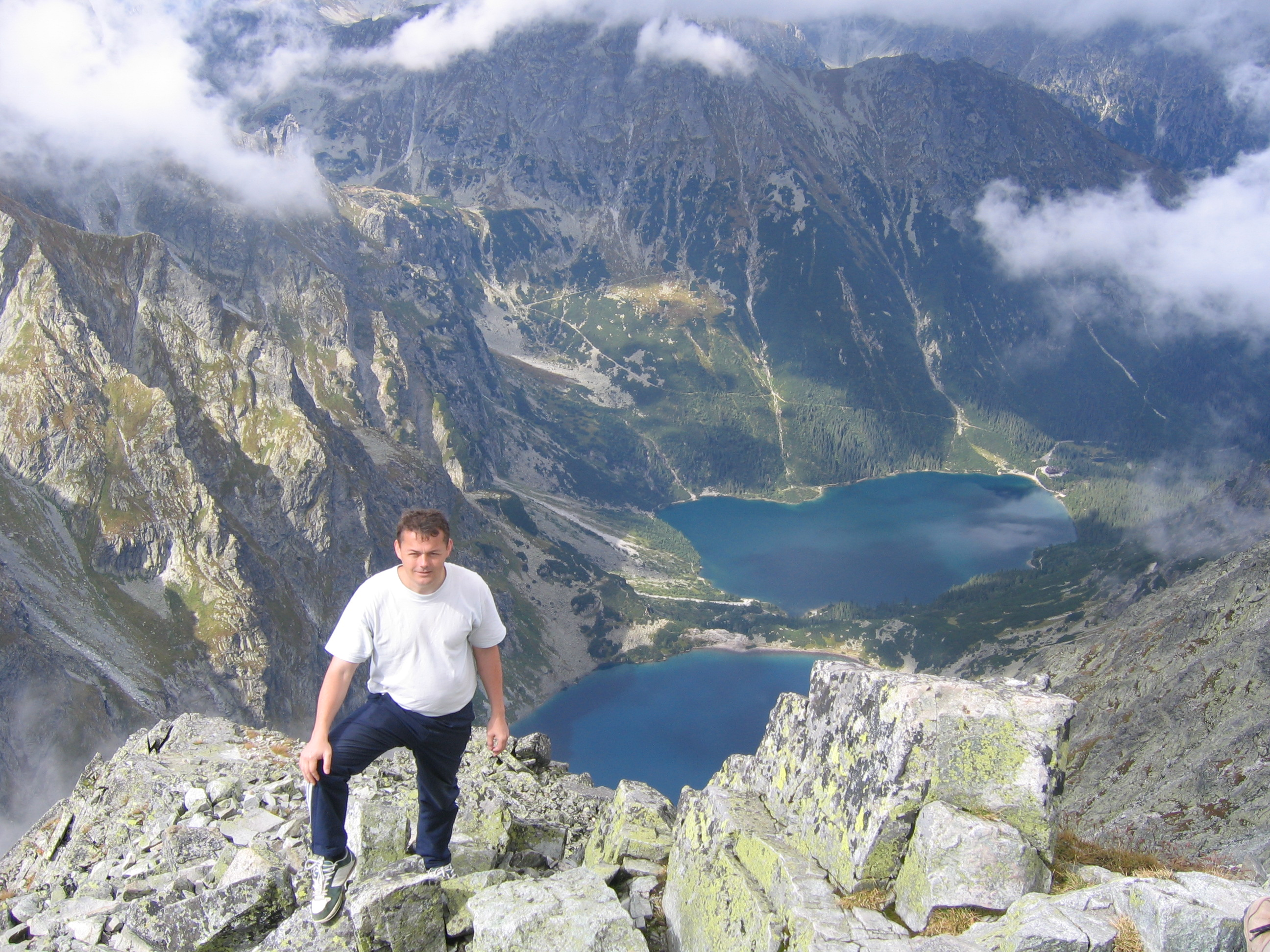 Rysy, the view on Morskie Oko